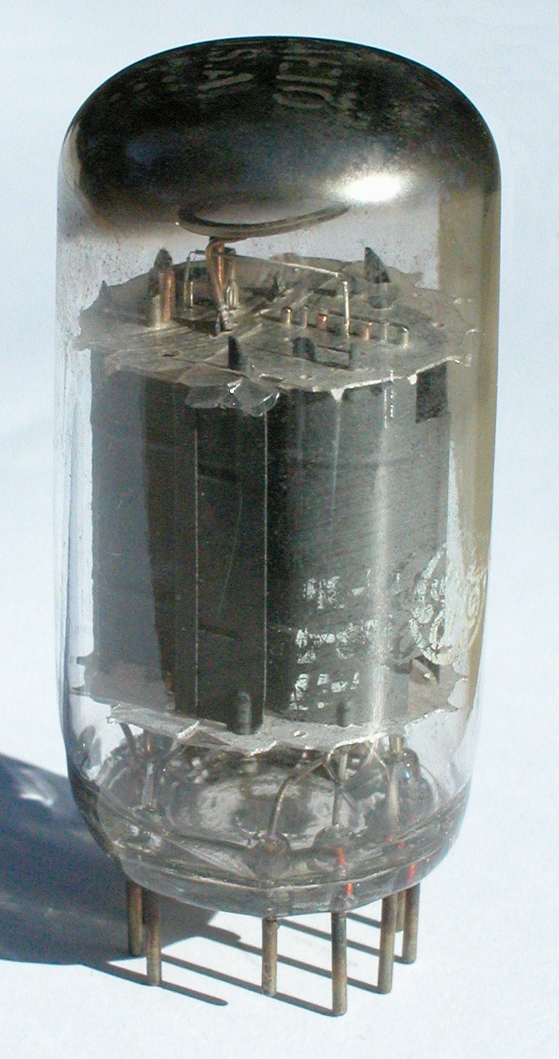 Description: 12AE10, a Compactron dual pentode vacuum tube Source: Image by John Rehwinkel. Permission: Released into public domain by John Rehwinkel. Confirmation e-mail received from Mr. Rehwinkel has been sent by Lupo to permissions AT wikimedia DOT org. Note that Mr. Rehwinkel has also released his original, full-scale image into the public domain. Lupo 20:07, 22 February 2006 (UTC) Comment: Note that the tube is vertical, although it doesn't look that way. The left border of the glass and the vertical structures in the interior are vertical; the right boundary of the glass isn't: vacuum tubes are not perfect cylinders! History: originally uploaded as a thumbnail to the en: Wikipedia by User:EricBarbour. Larger version produced by Lupo from Mr. Rehwinkel's originals by rotating, cropping, and correcting some turquoise and white blotches.